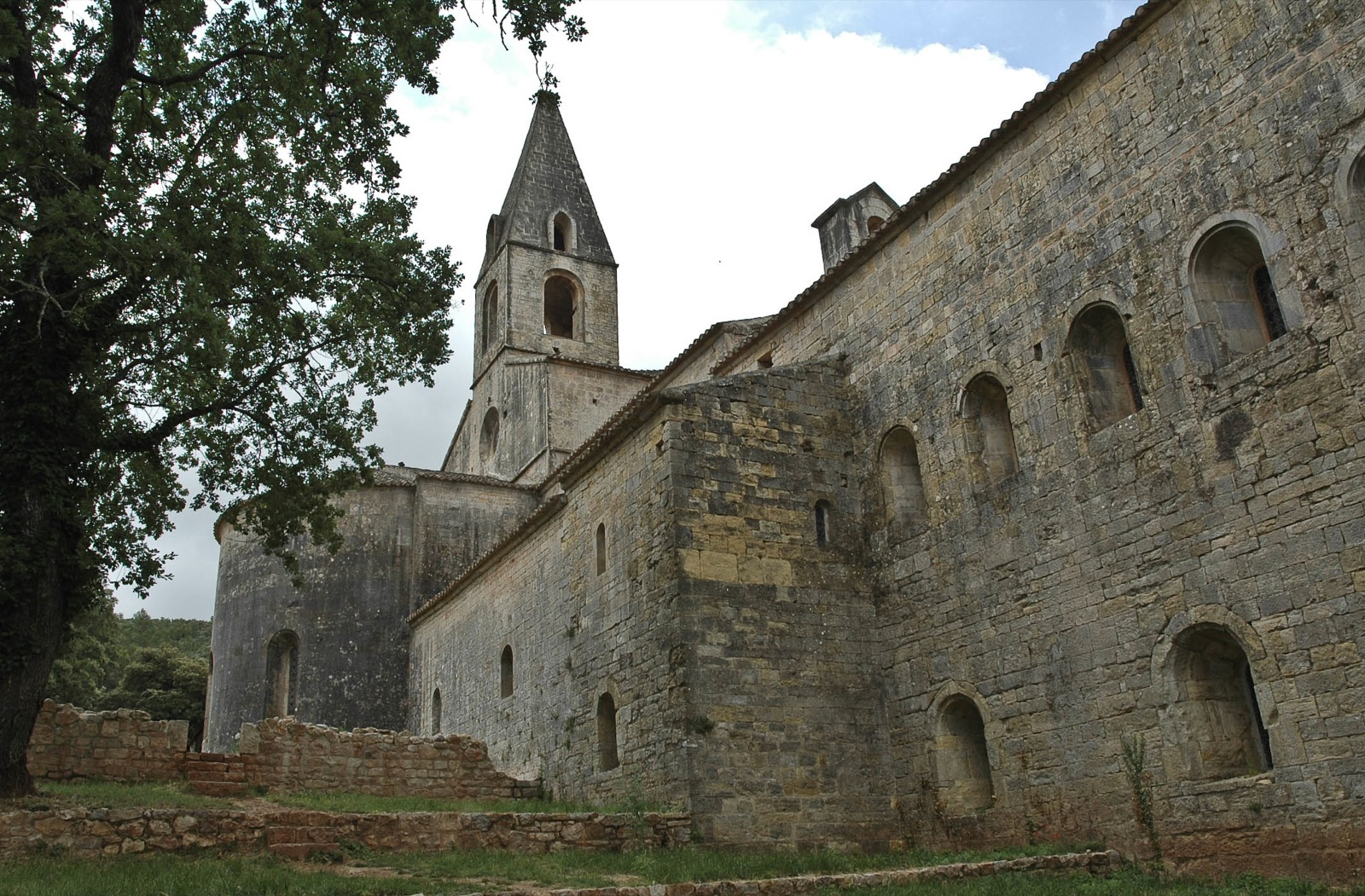 Church of the cistercian abbey of Le Thoronet (Var), seen from the outside